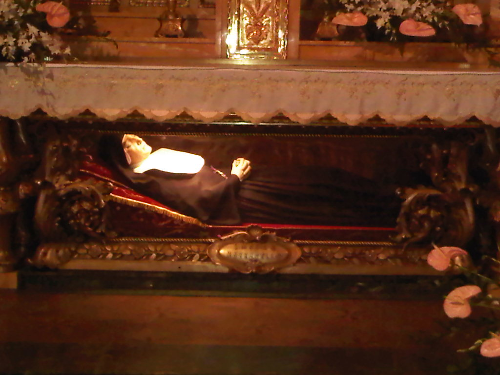 St. Maria Domenica Mazzarello, the Italian founder of the Salesian Sisters. Her body, in the Saint Maria Domenica chapel, inside the Basilica of Our Lady Help of Christians, Turin.